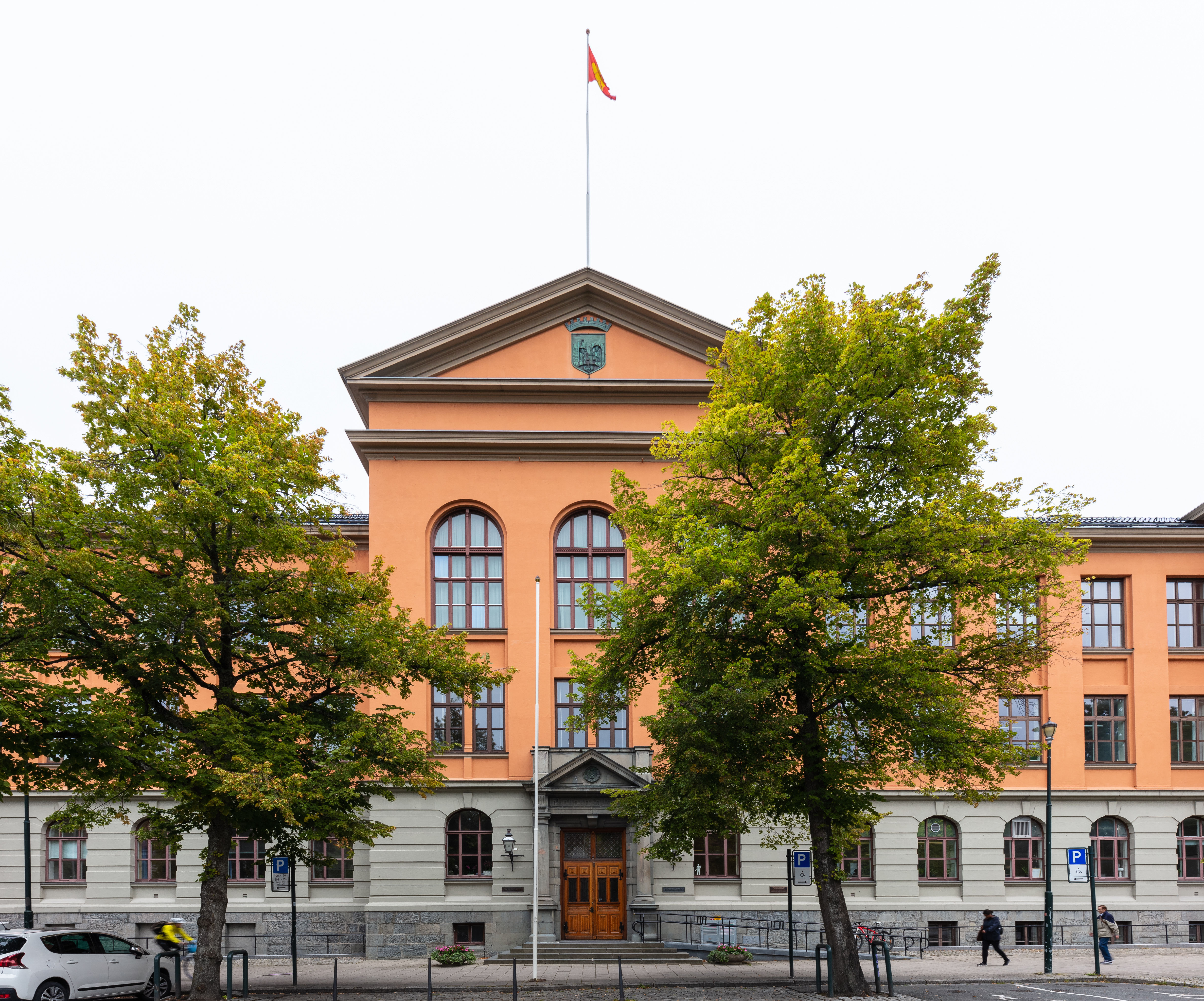 Town hall, Trondheim, Norway